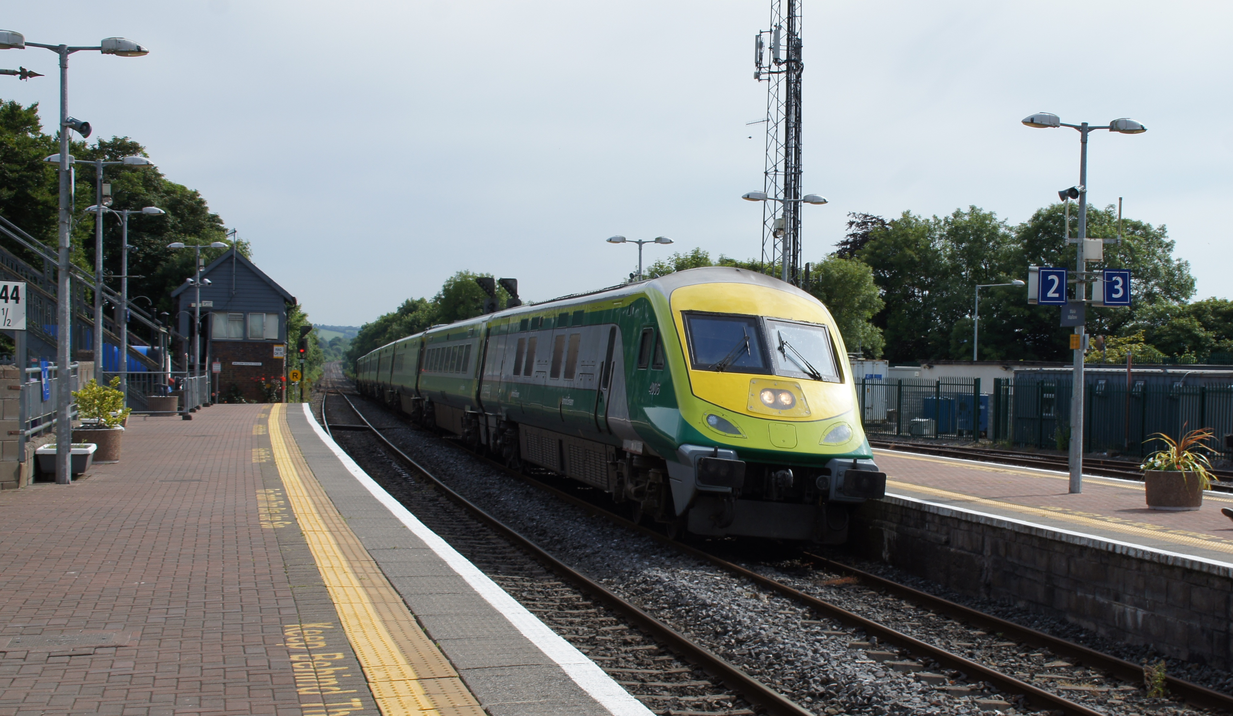 CAF-built Mark 4 carriages of the Irish railway company Iárnrod Éirann.